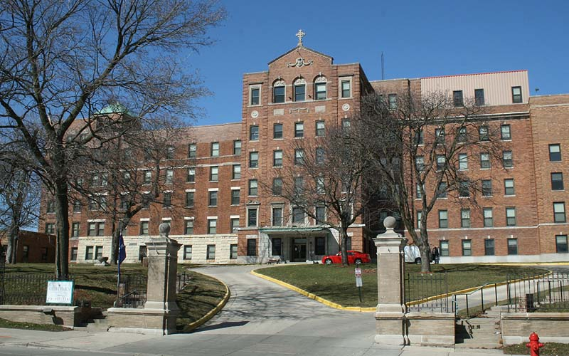 Milwaukee Hospital, Milwaukee Wisconsin, National Register of Historic Places. It was the First Protestant hospital west of Pittsburgh, founded in 1863.